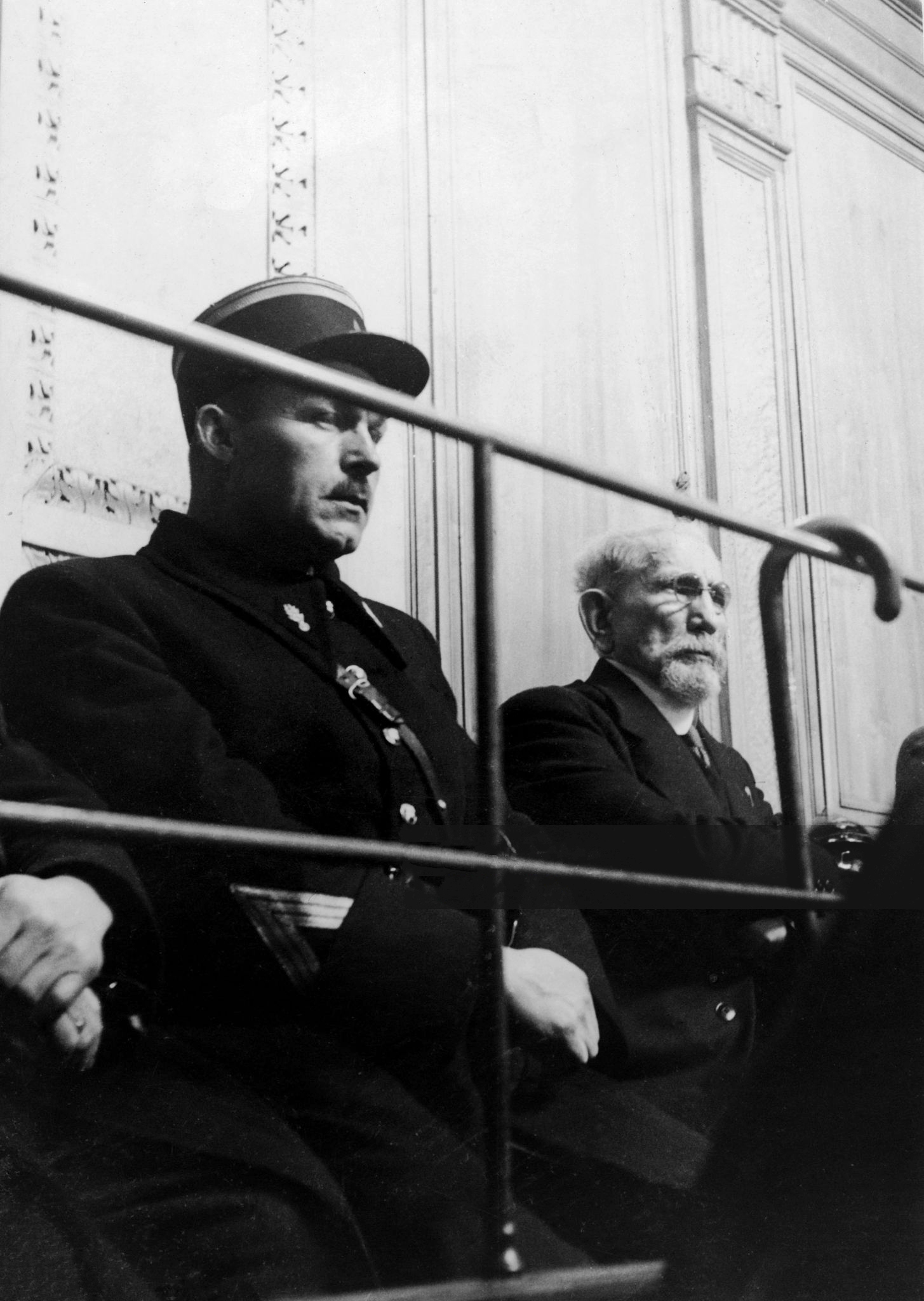 Charles Maurras On His Trial In Lyon, 1945